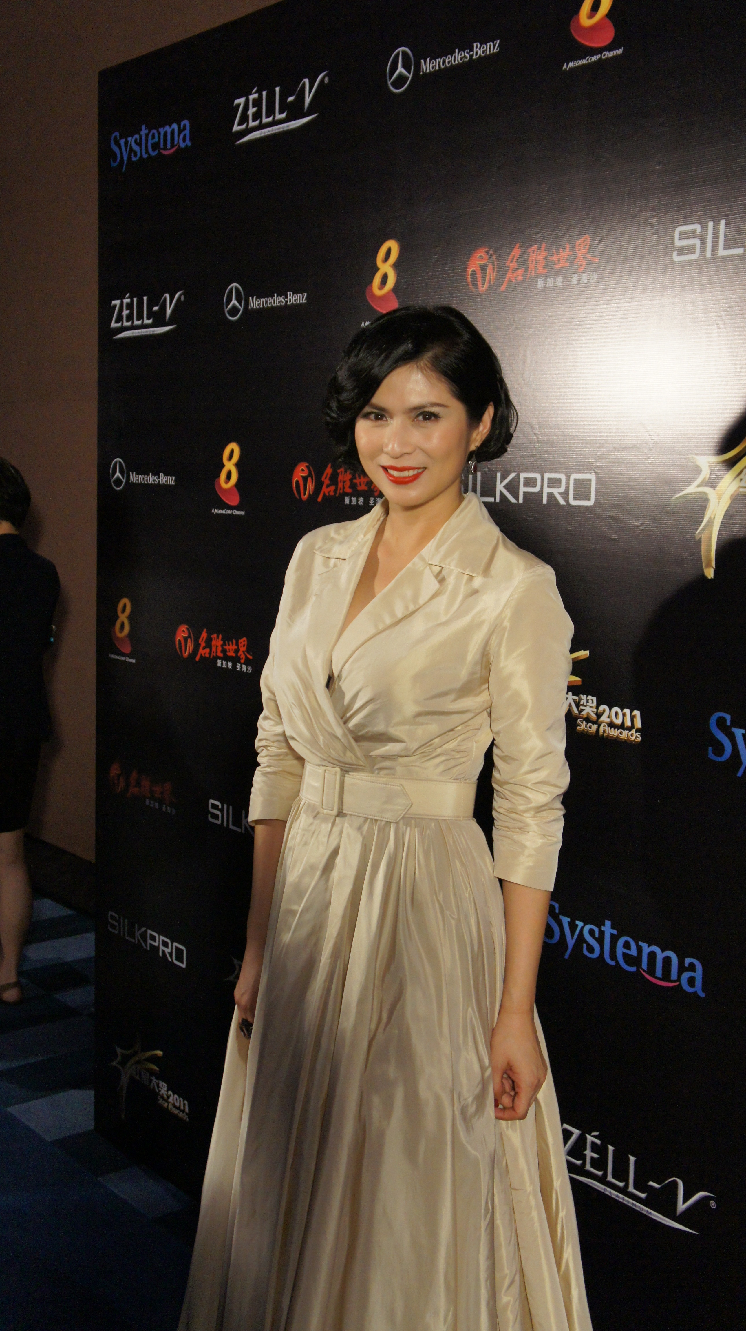 Singaporean actress Pan Lingling at the Star Awards 2011.